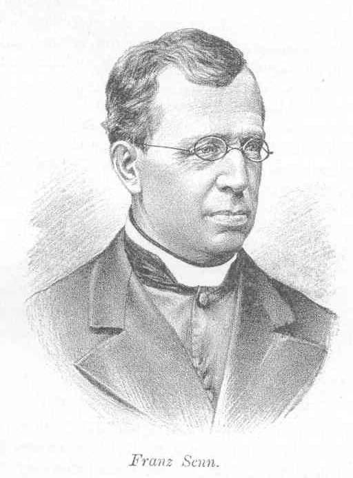 Scan from a historic book 1894